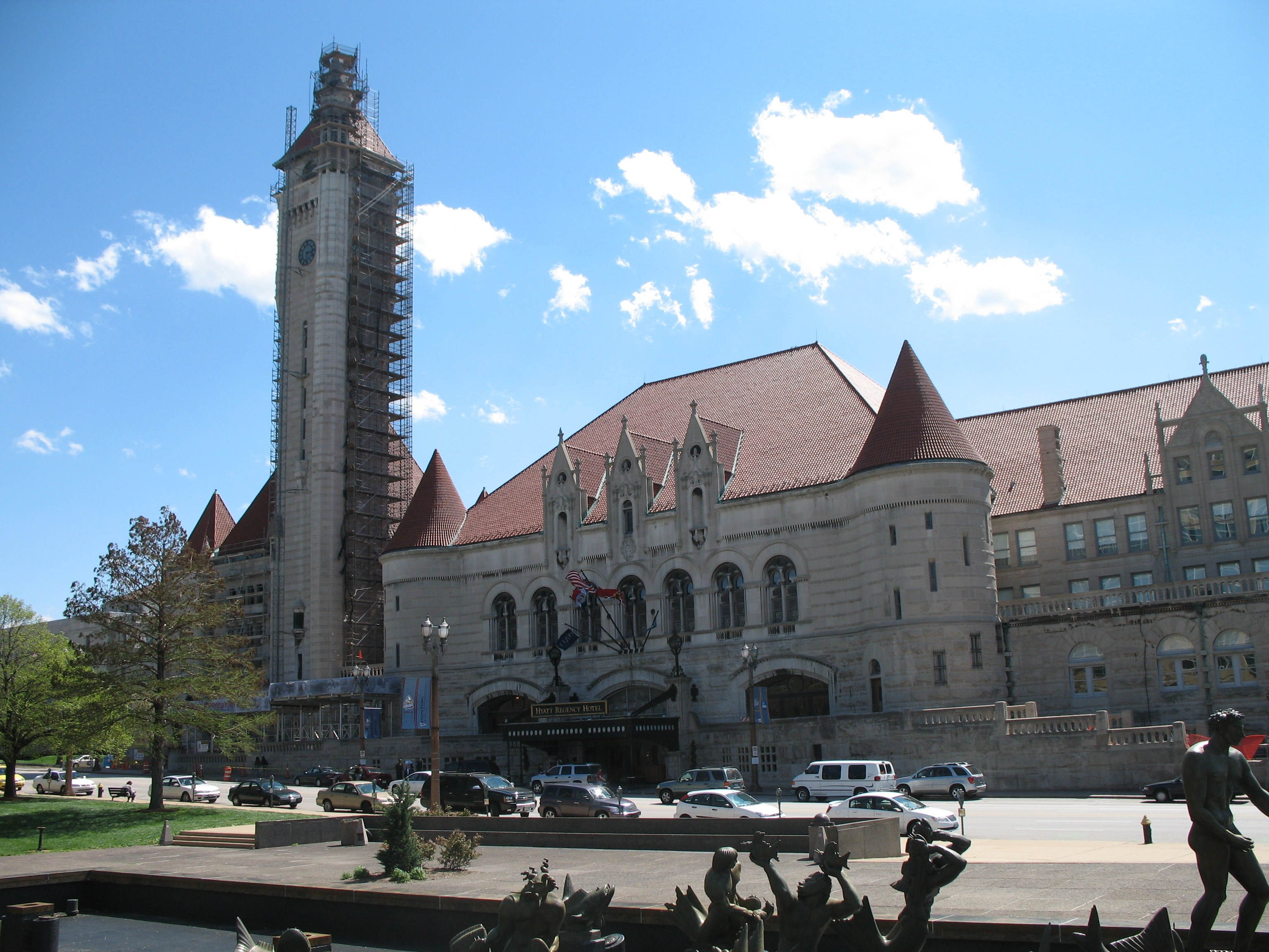 Union Station and meeting of waters statue. Photo by poster in April 2007.